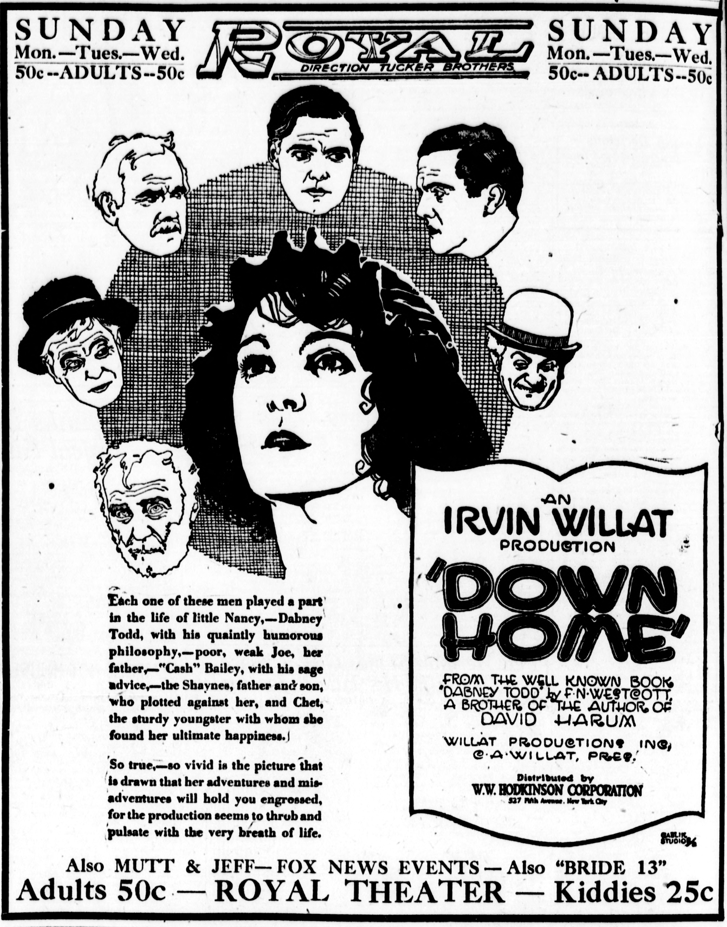 Down Home is a 1920 American silent drama film written, directed and produced by Irvin Willat and starring Leatrice Joy. This is a newspaper advert.